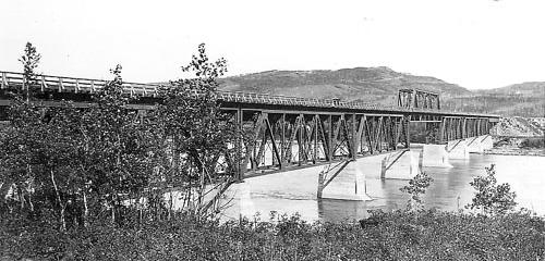 A Edmonton, Dunvegan, and British Columbia Railway bridge over the Peace River, in the Alberta town of the same name.